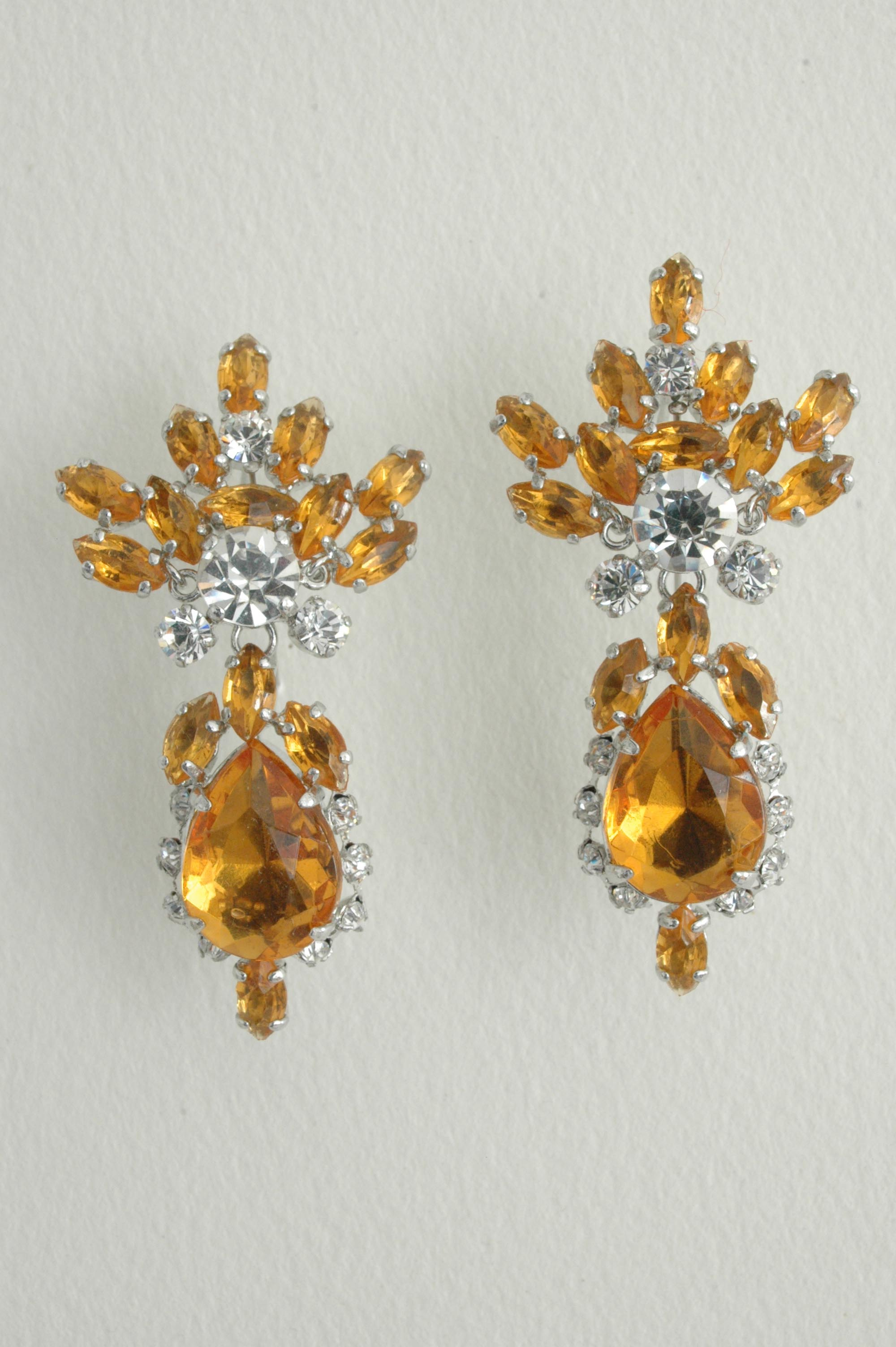 Costume Jewelry_Earring own work 11.Feb.2007 Detlef Thomas